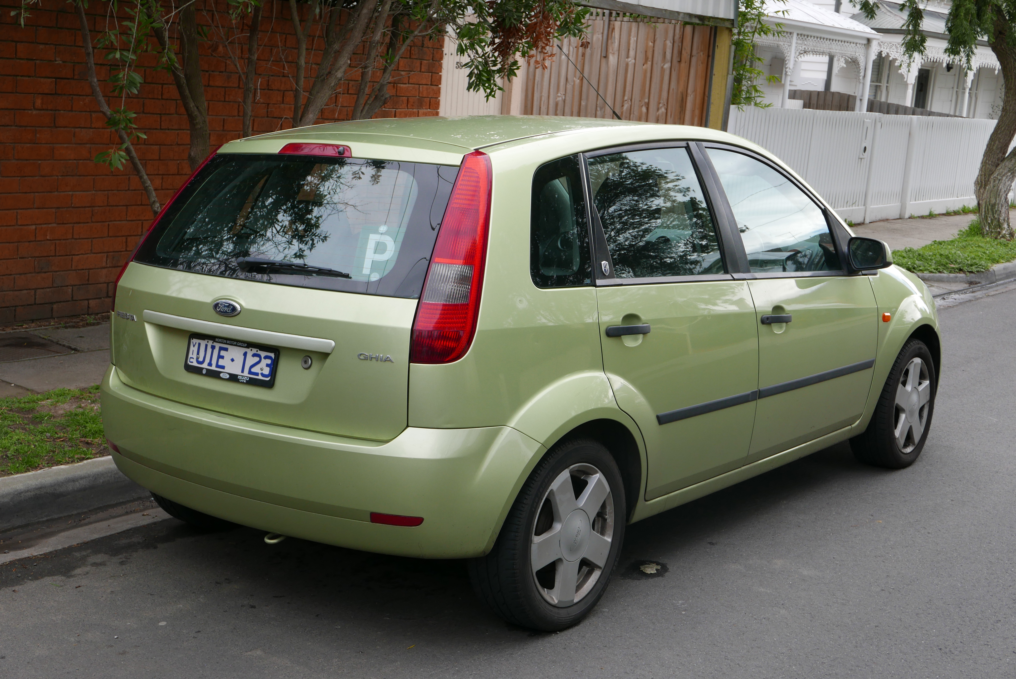 2005 Ford Fiesta (WP) Ghia 5-door hatchback. Photographed in Hawthorn, Victoria, Australia. Vehicle registration enquiry results Jurisdiction Victoria Registration UIE123 Chassis code WF0HXXGAJH5C81071 Engine code FYJA5081071 Compliance date 2005-11 Year of manufacture 2005